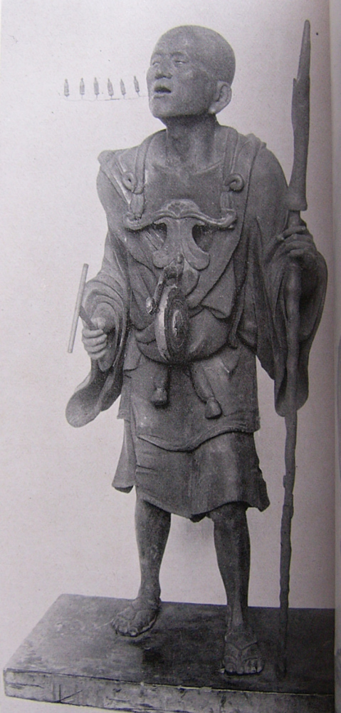 portrait of monk Kūya(ACE930-972), total about 117.6 cm height, wood, coloured, ACE13th century, Sculptor is Kosho(early 13th century), in Rokuharamitsu-ji temple, Kyoto, Japan